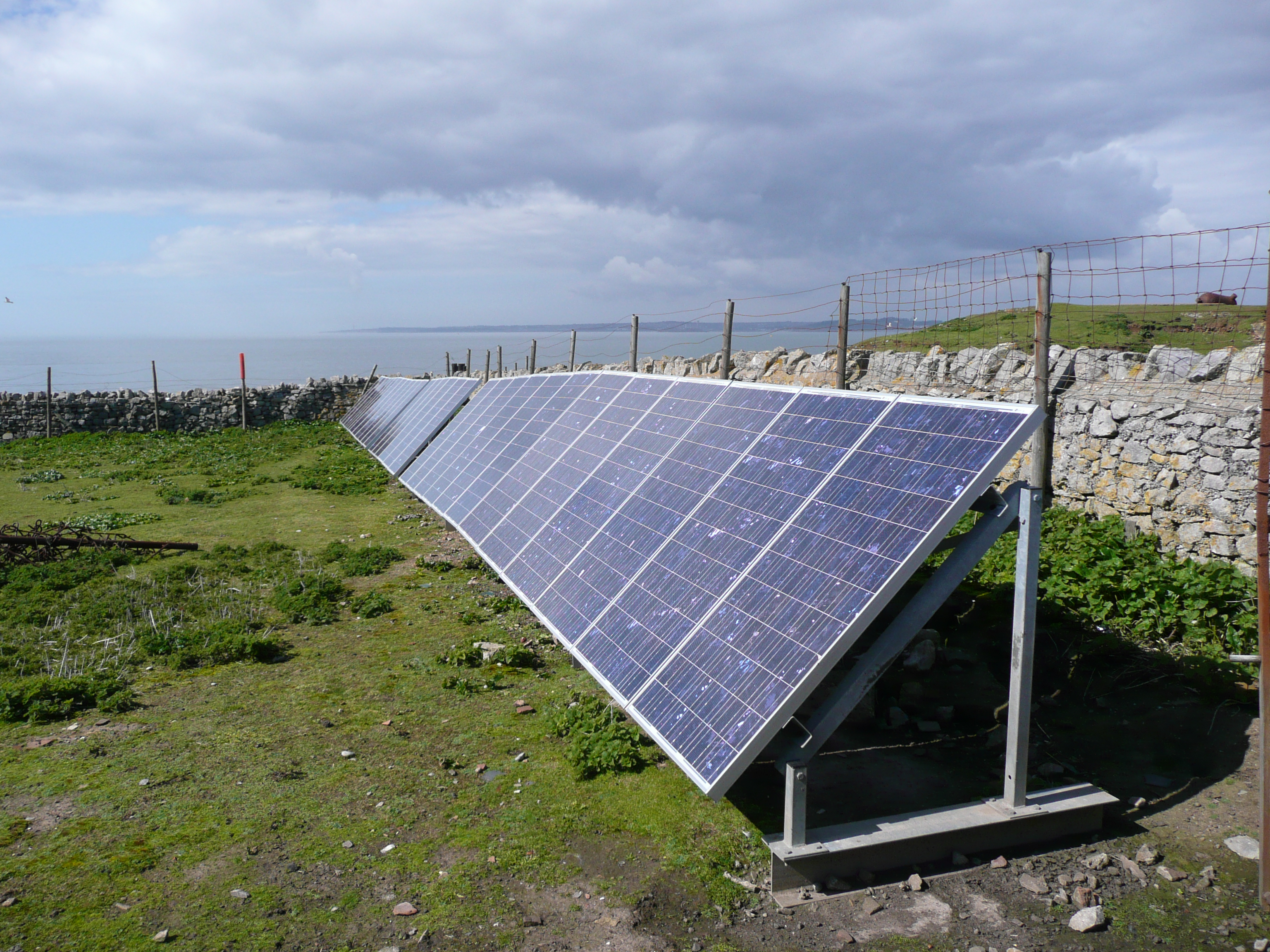 Photo Voltaic array at Flat Holm Island